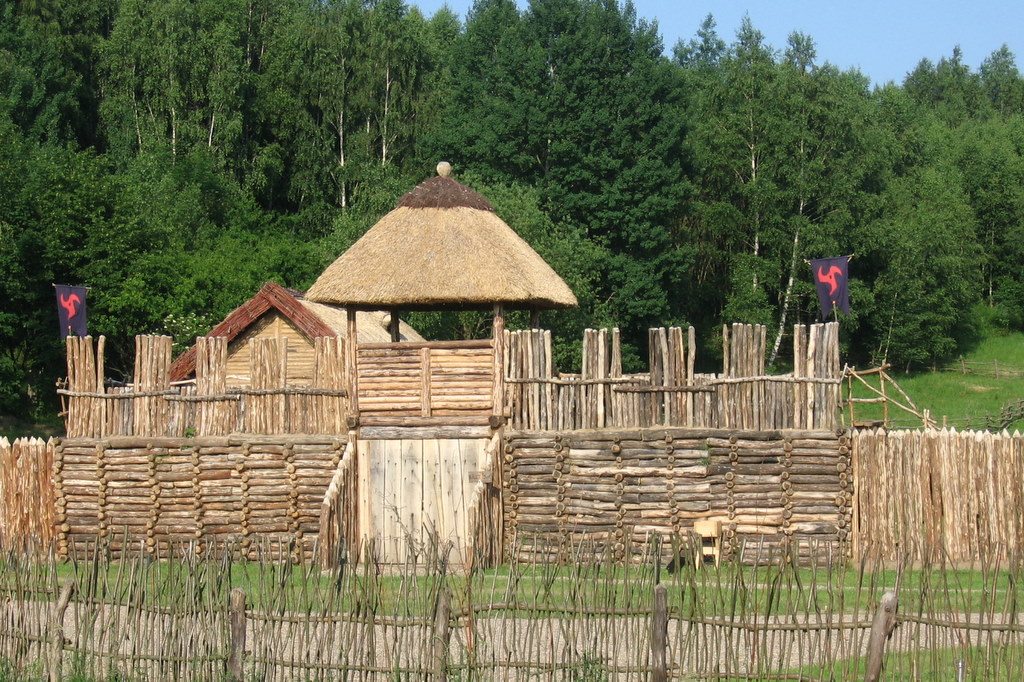 Reconstruction of early medieval gord (Slavic settlement) - Sławogród in Czaplinek, Poland